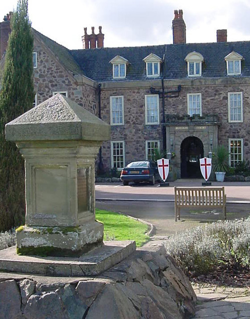 Monument at Rothley Court Hotel The ancestral home of eight generations of Babingtons. The monument records the successful joint work done here by William Wlberforce and Thomas Babington in the campaign to abolish the British Slave Trade